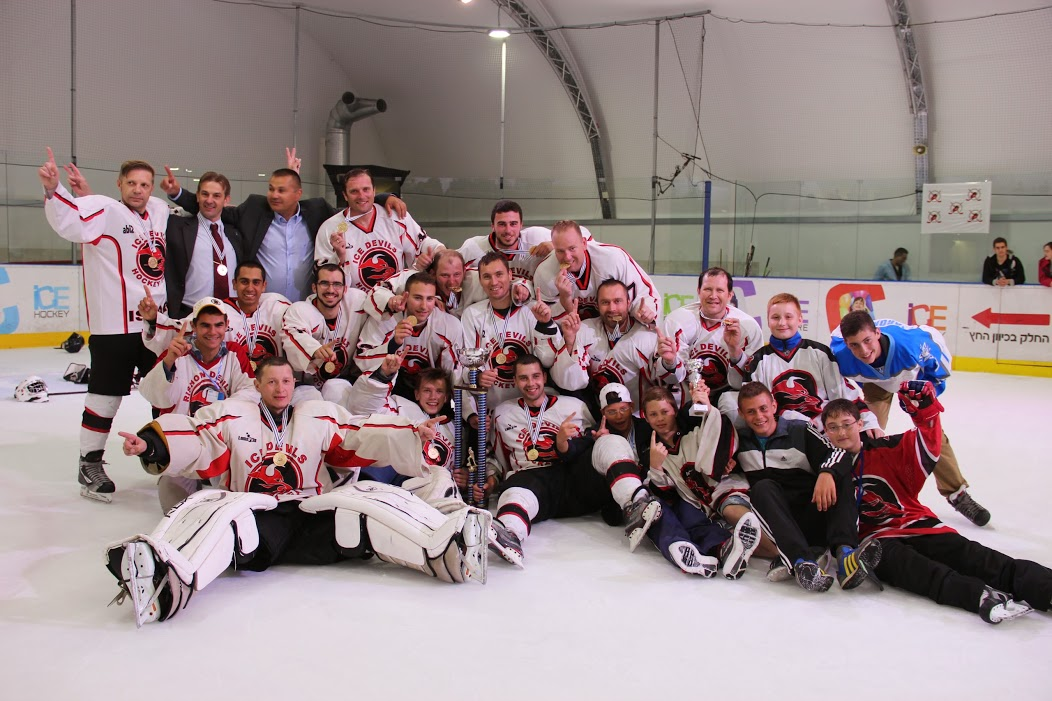 Rishon Devils Ice Hockey Team, Israeli Champions 2014